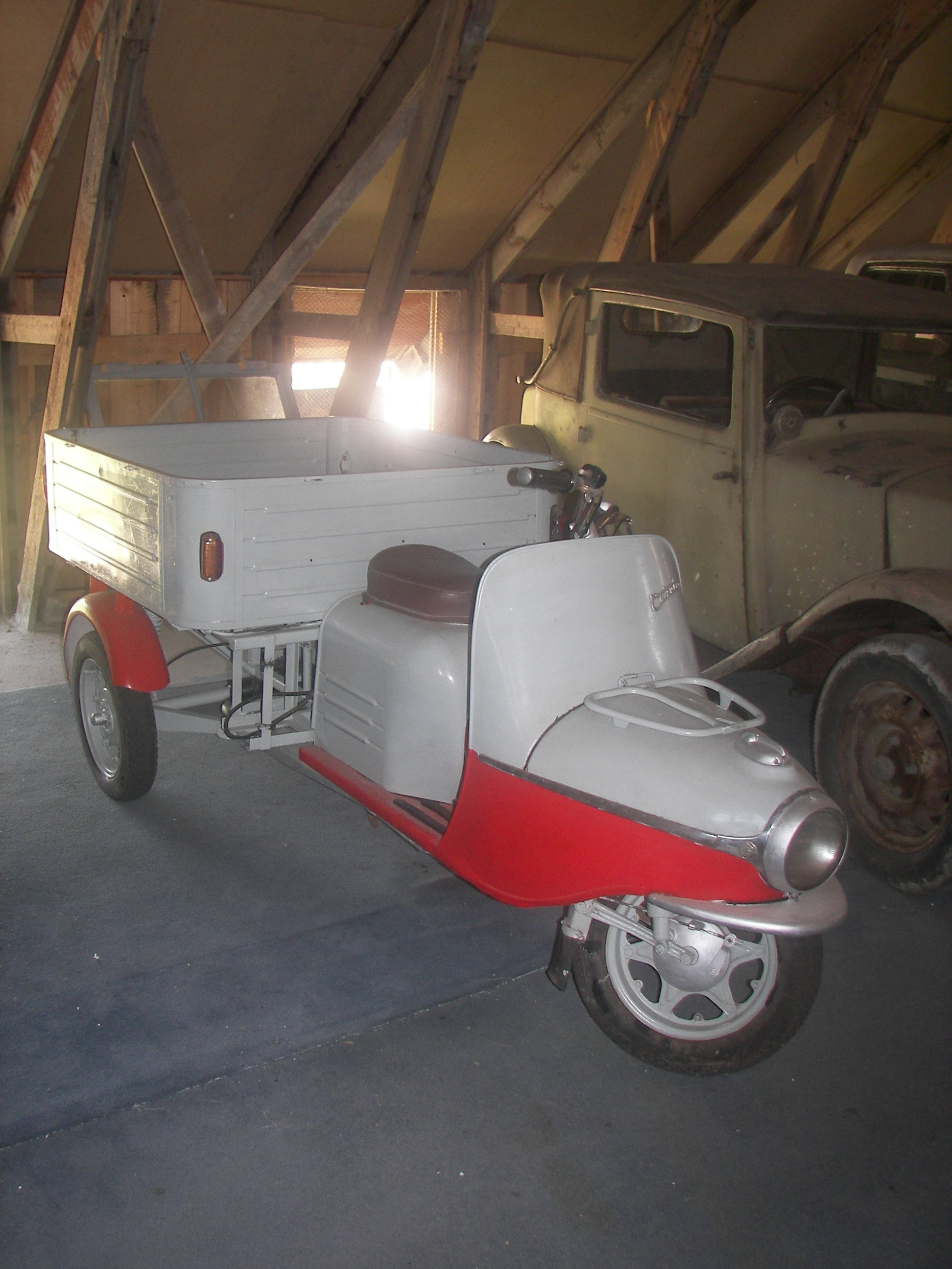 Čezeta 505 three-wheeled vehicle.